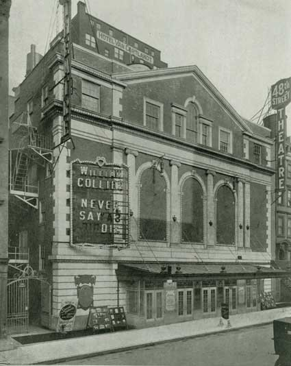 48th Street Theatre showing Never Say Die (1912)